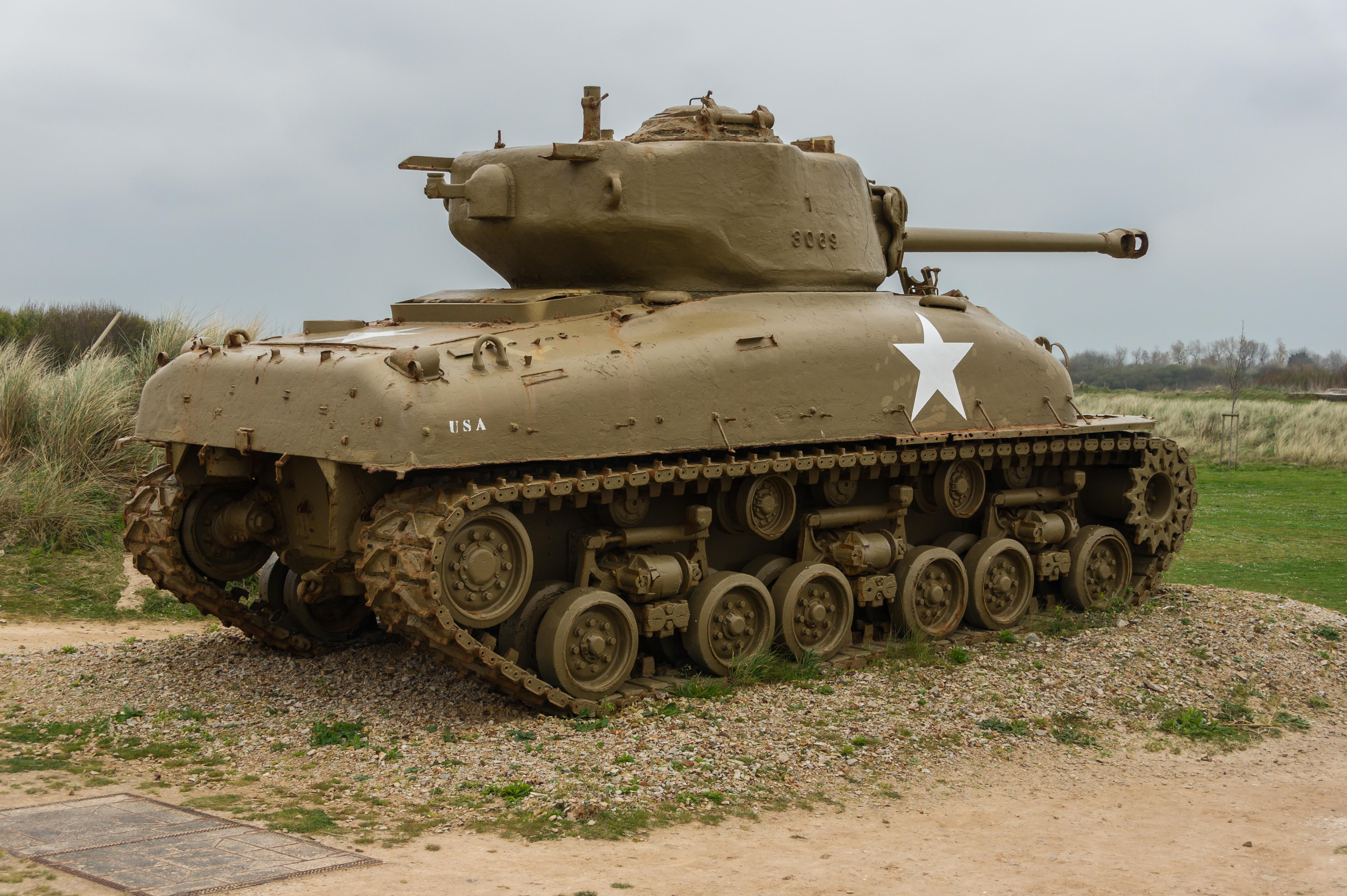 M4 Sherman at Utah Beach, Normandy, France.